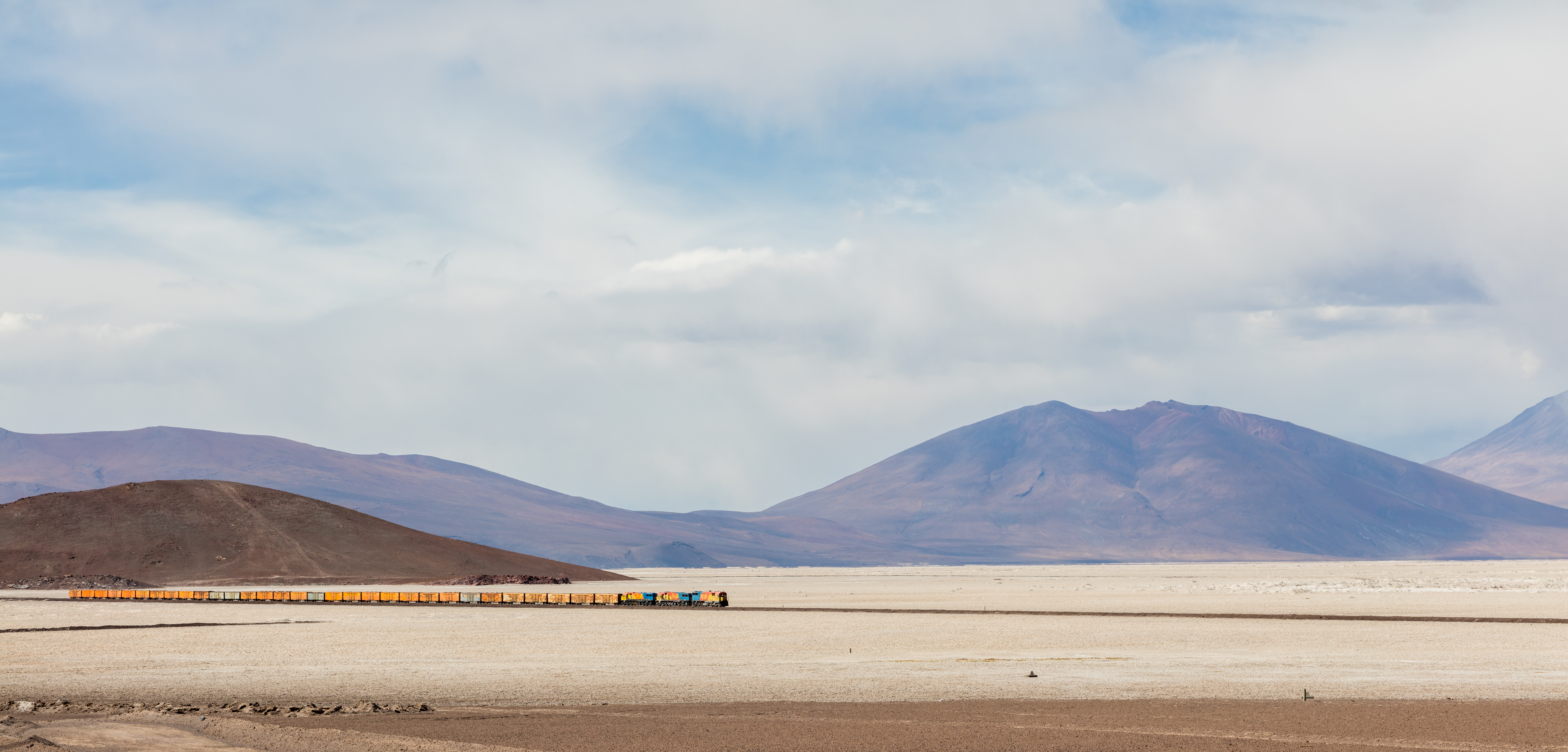 Train FCAB with engines EMD GR12 2402, Clyde GL26C-2 2010 and Clyde GL26C-2 2005 over the Ascotán salt flat, Chile